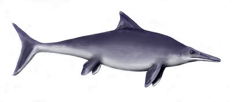 Stenopterygius quadriscissus, an ichthyosaur from the Lower Jurassic of Germany, pencil drawing